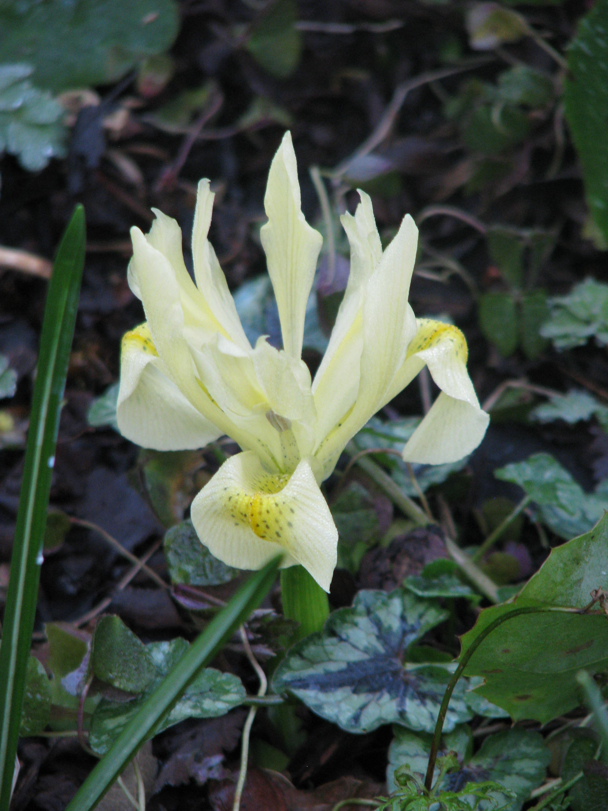 I would dearly like a camera (or to know how to use this one) so that the colours come out right in low winter light. Is it possible? The real colour here is a lovely soft lemon yellow - not creamy